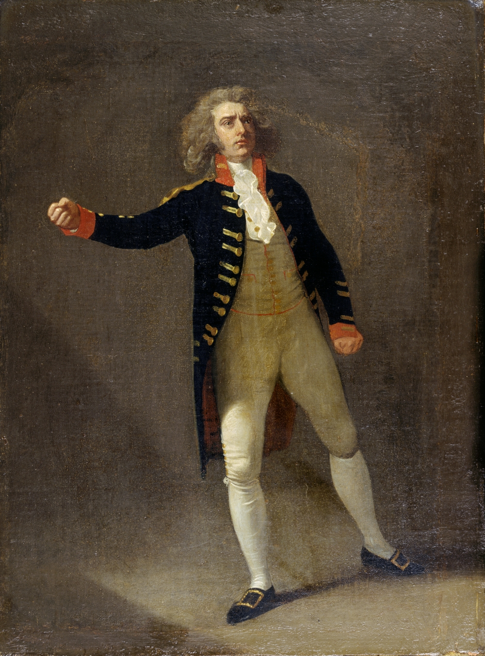 Portrait of Joseph George Holman (1764–1817), English actor, as Chamont in Otway's 'The Orphan'